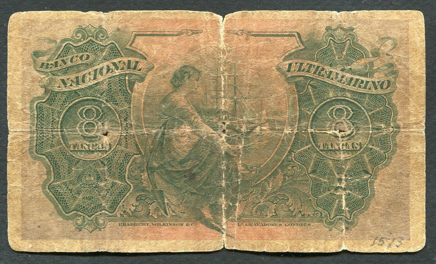 nova coa